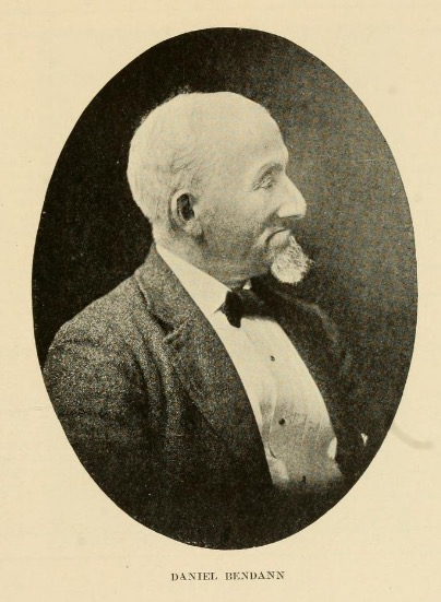 Image of Daniel Bendann from Jews of Baltimore (1910)